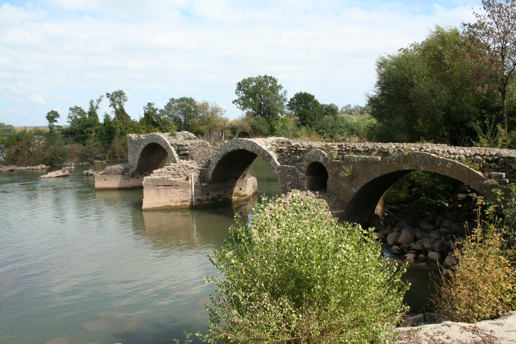 The remains of the Roman bridge of Saint-Thibéry across the river Hérault in Southern France. The bridge was part of the Via Domitia.